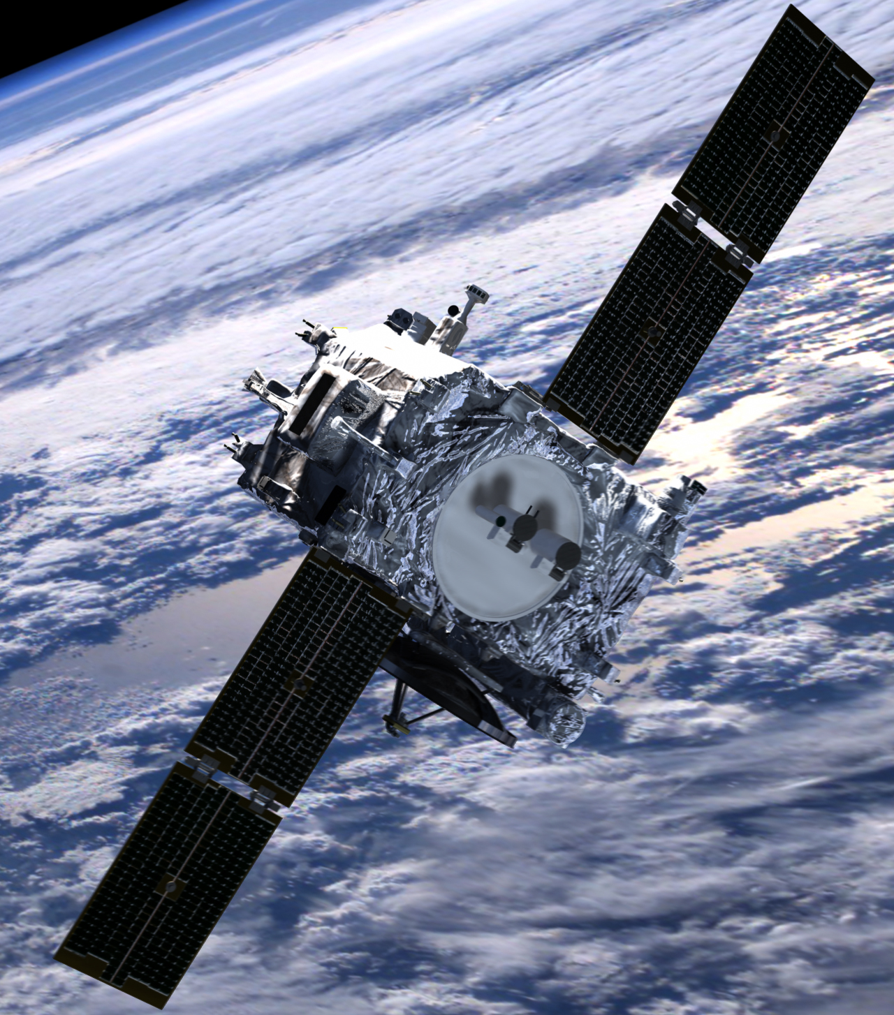 Artist rendering of the STEREO Observatory spacecraft during solar panel deploy.